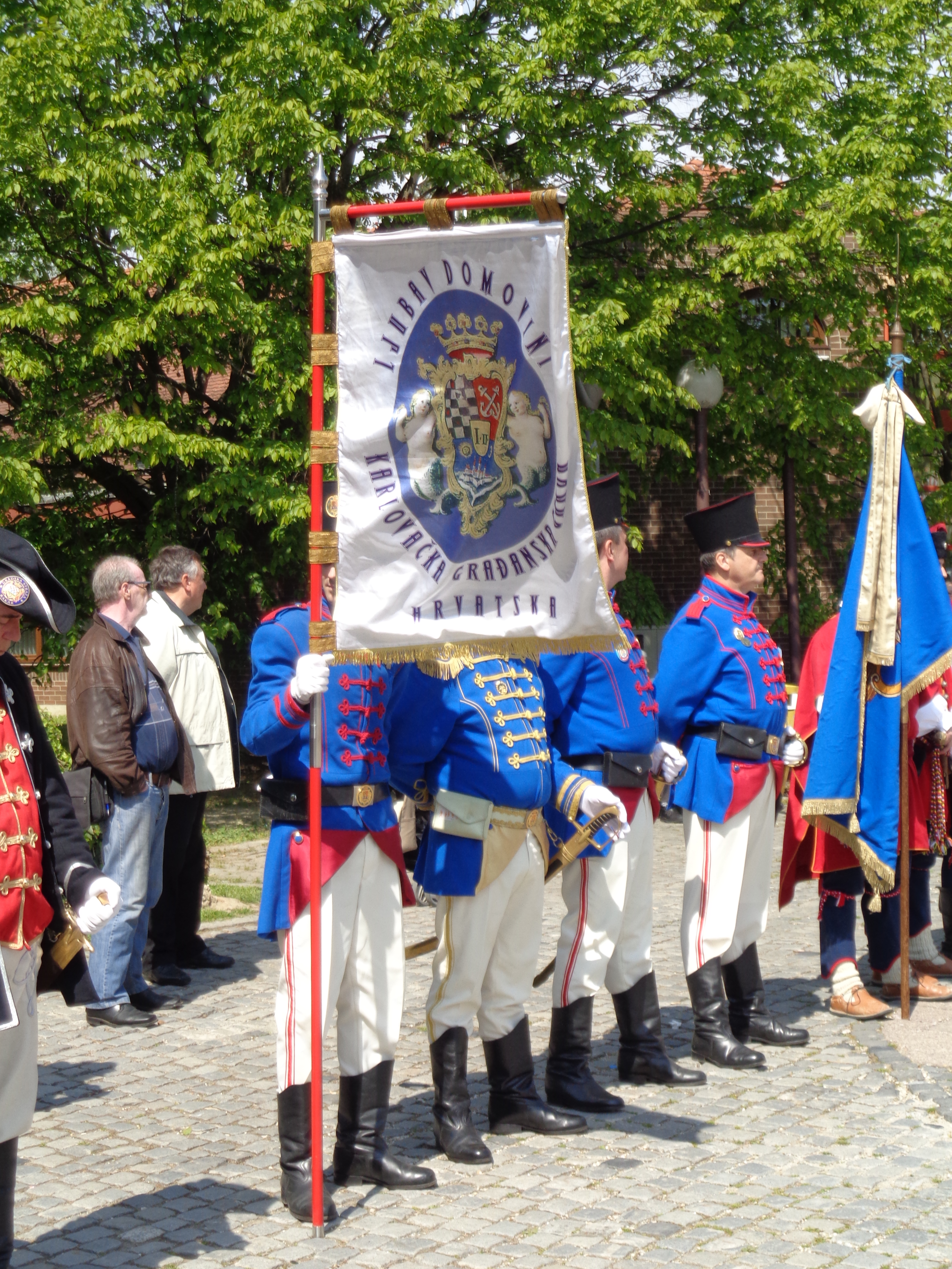 "Karlovac Civil Guard", a historical military unit from the Town of Karlovac, Croatia, during The Medjimurje County Day celebration (30th April 2017) in Čakovec